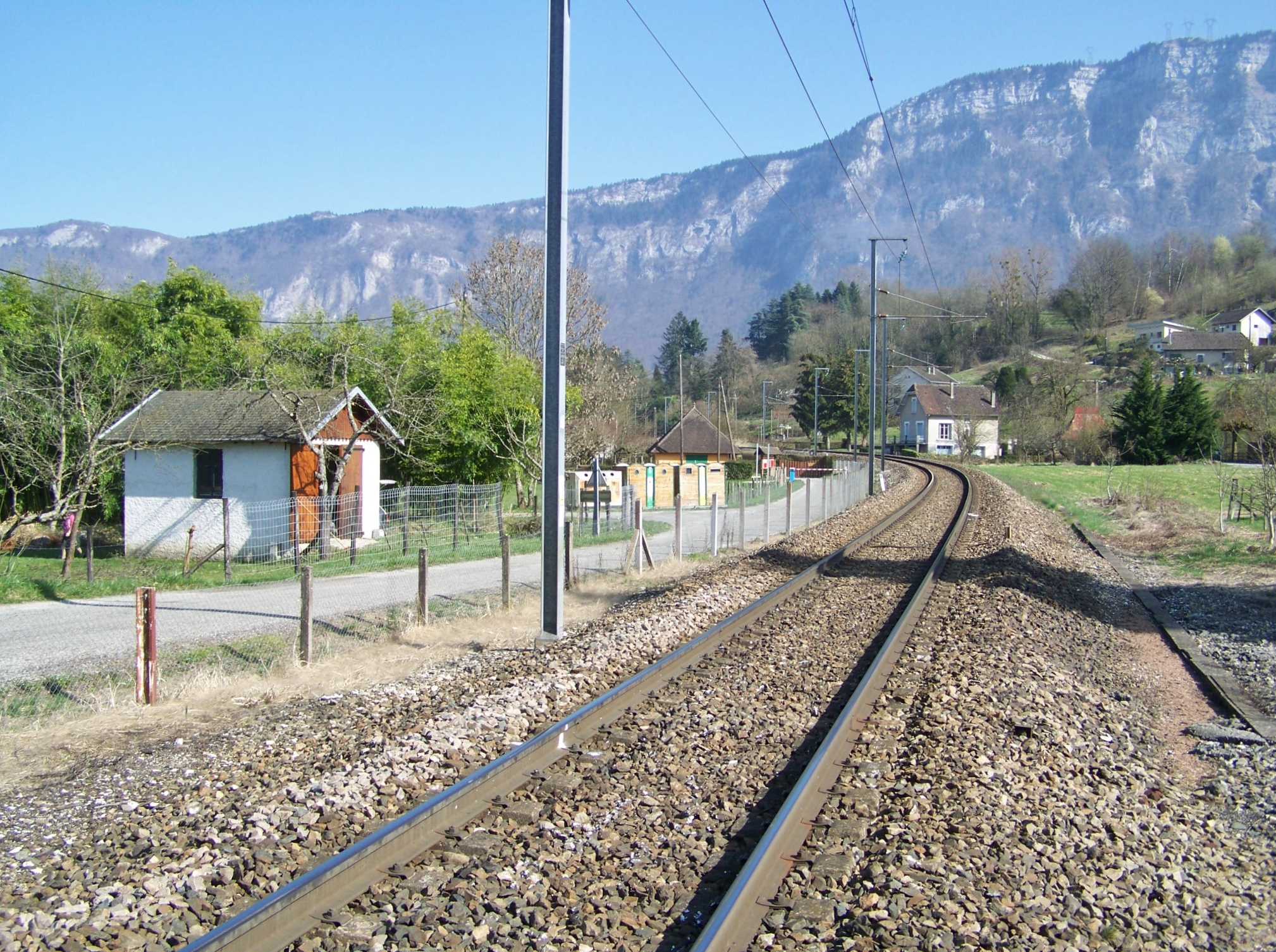 Sight of Saint-André-le-Gaz to Chambéry railway line, here in Lépin-le-Lac in Savoie, France.